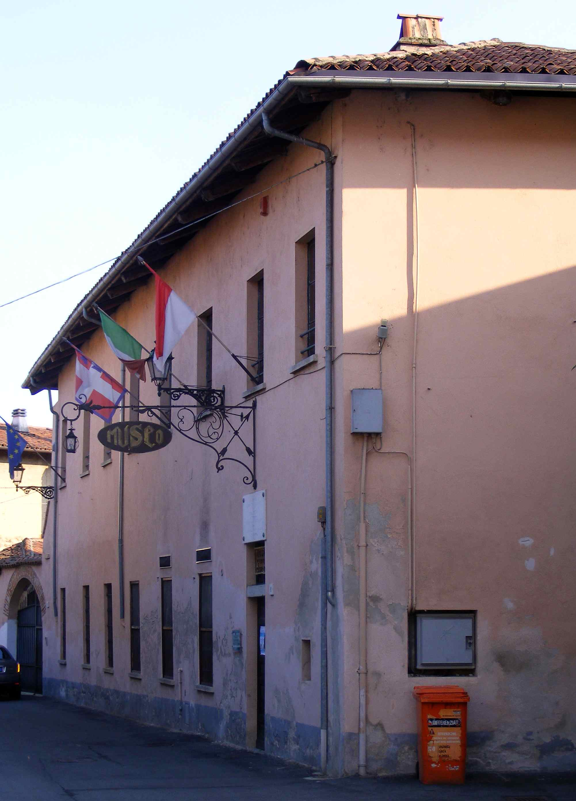 San Giorgio Canavese (TO, Italy): Nòssi Ràis local museum